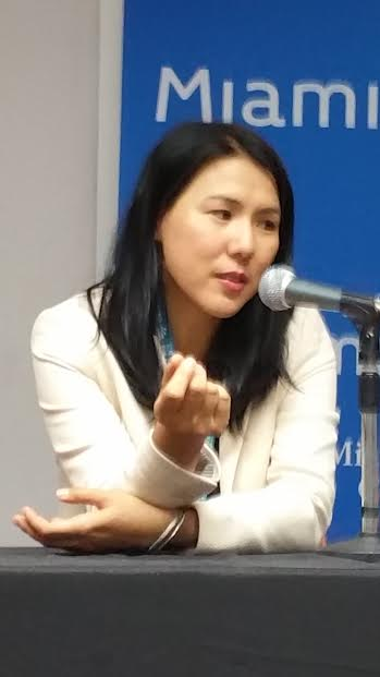 Suki Kim at Miami Book Fair International, November 21, 2015, speaker's panel.